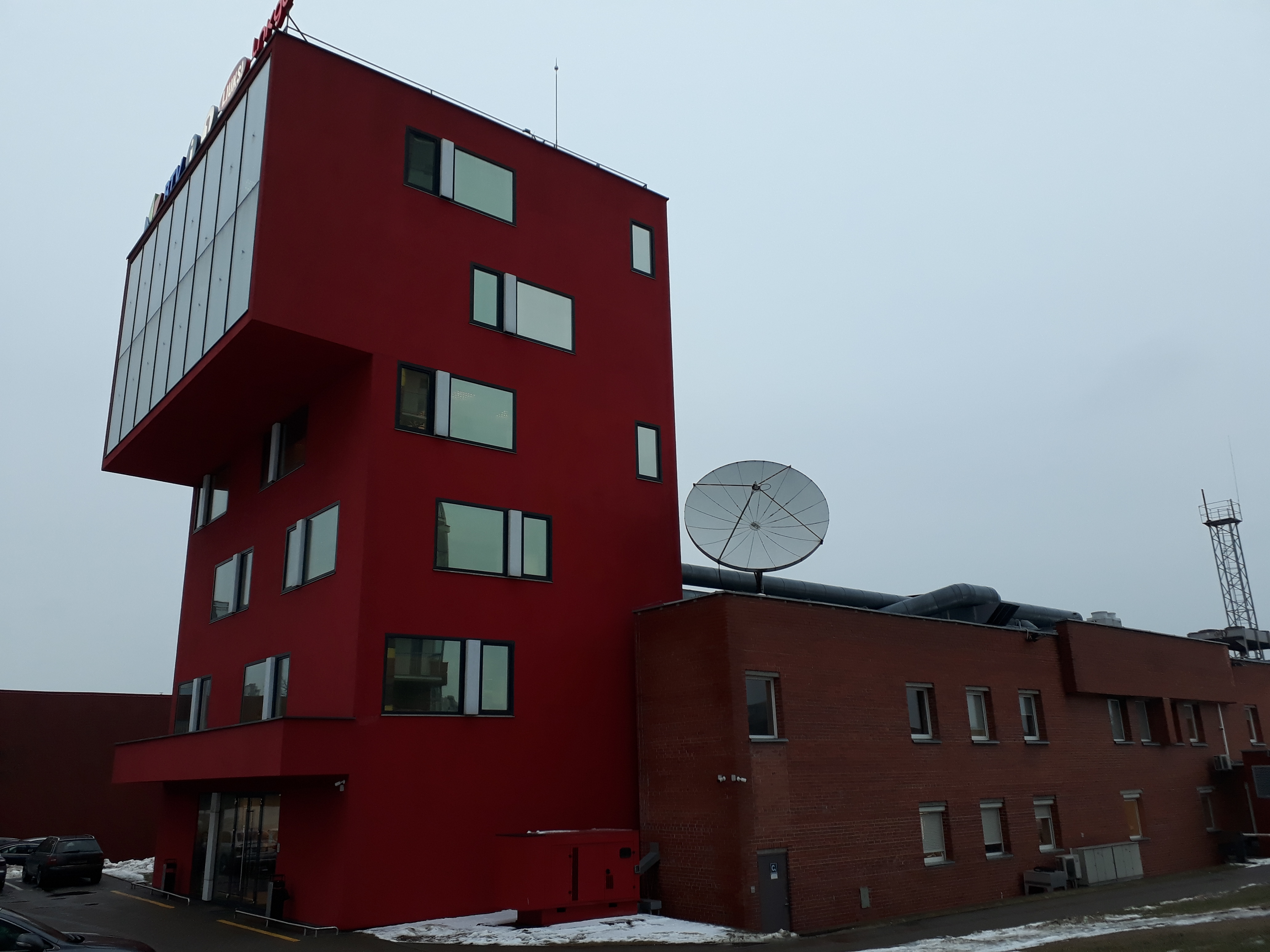 LNK TV studios in Vilnius